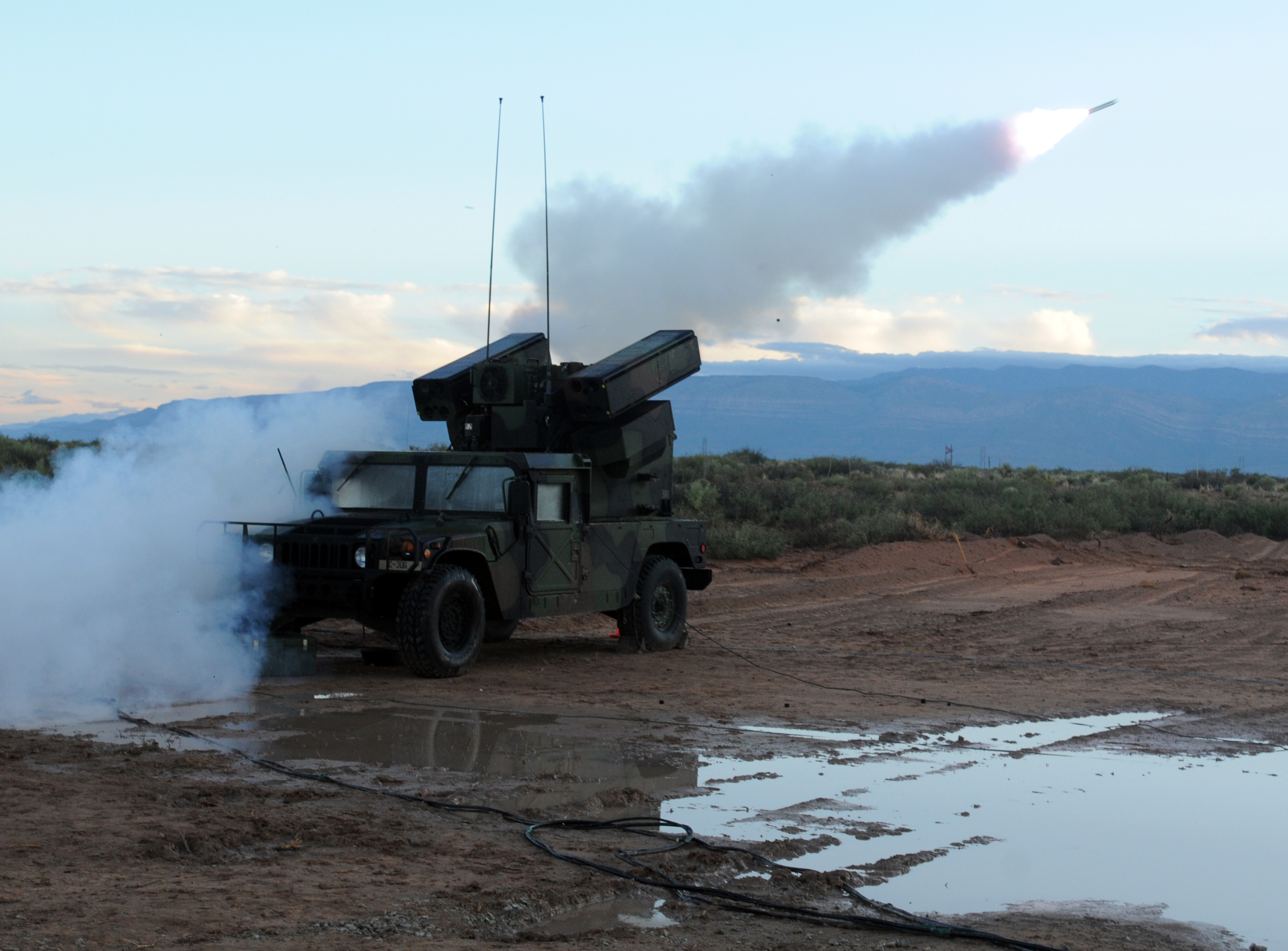 An AN/TWQ-1 Avenger with the 1st Battalion, 204th Air Defense Artillery Regiment of the Mississippi Army National Guard fires a Stinger missile at a drone during a live fire exercise at Fort Bliss, Texas, Oct. 8, 2015. Approximately 170 Soldiers of the 204th, headquartered in Newton, Miss., are mobilized to protect and guard the skies and no-fly zones of Washington, D.C. (Mississippi National Guard photo by Staff Sgt. Scott Tynes, 102nd Public Affairs Detachment/Released)